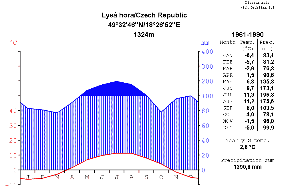 climate chart of Lysá hora, Czech Republic, for the period of time from 1961 to 1990, in the format by Walter and Lieth, metric, °Celsius and millimeters, chart made with Geoklima 2.1, label in English